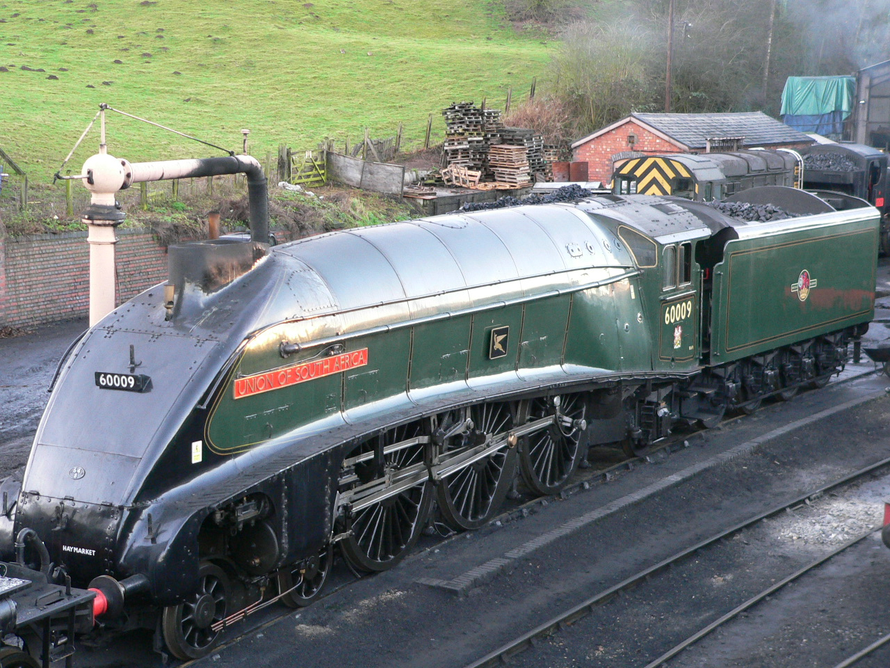 LNER LNER Class A4 steam locomotive Union of South Africa in British Railways green livery at Bridgnorth railway station on the Severn Valley Railway.